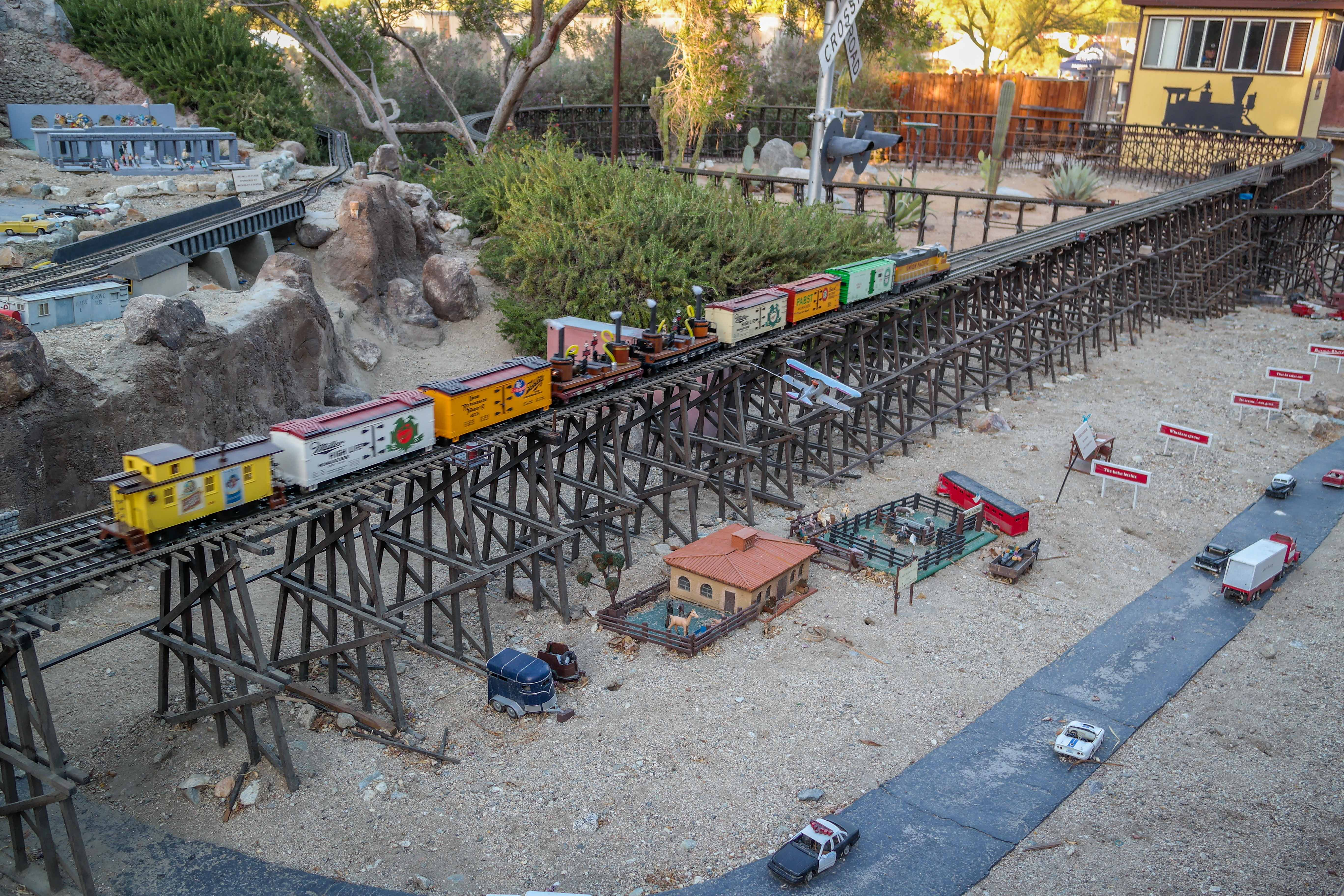 A model railroad bridge at the Living Desert, a zoo and botanical garden in Palm Desert, California